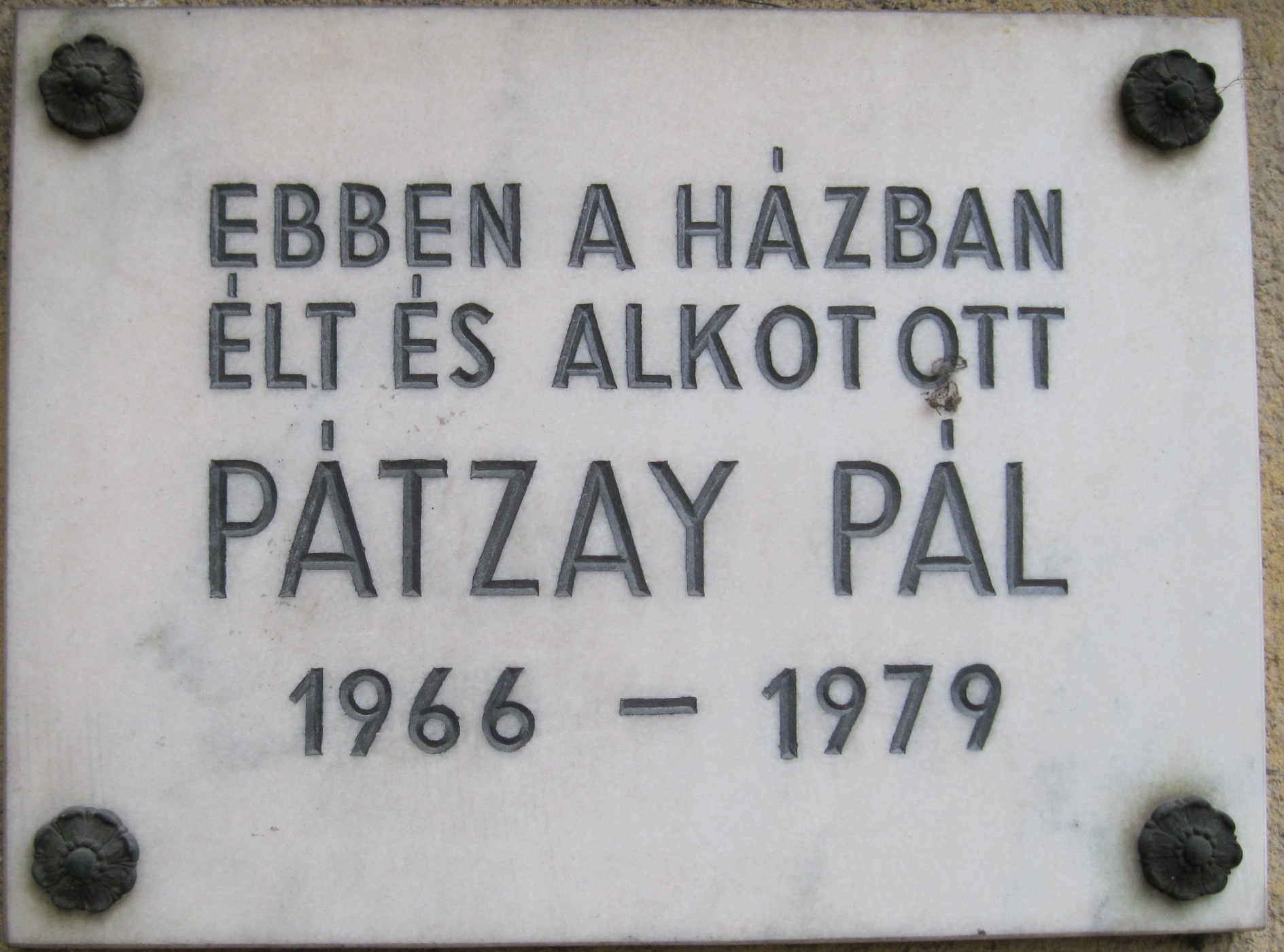 Pál Pátzay commemorative plaque in Budapest District II, Gábor Áron Street No 16.